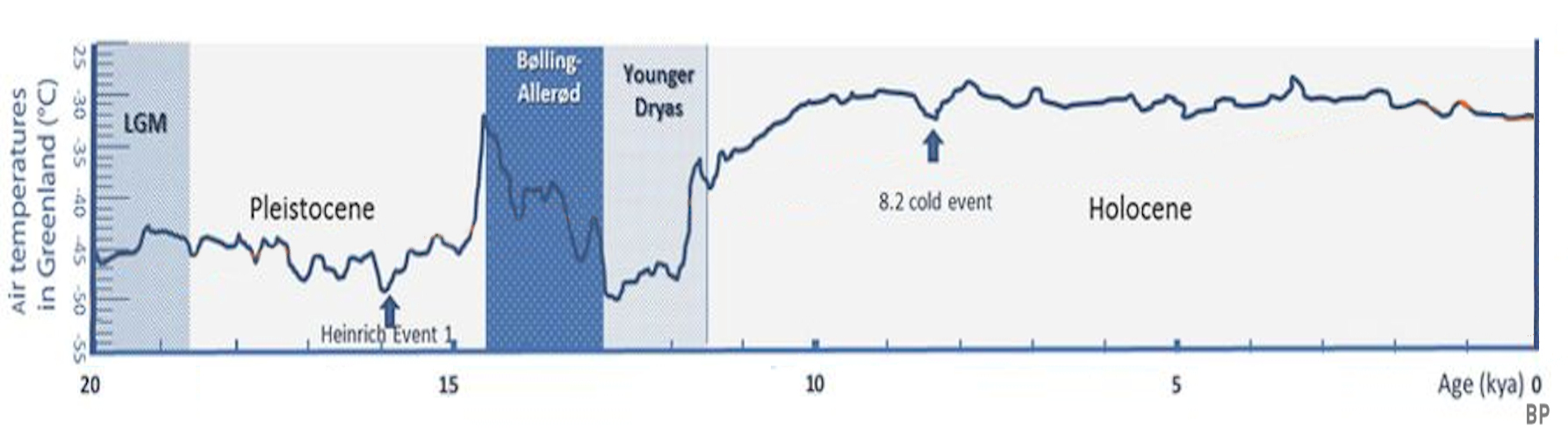 Evolution of temperature in the Post-Glacial period according to Groeanland ice cores